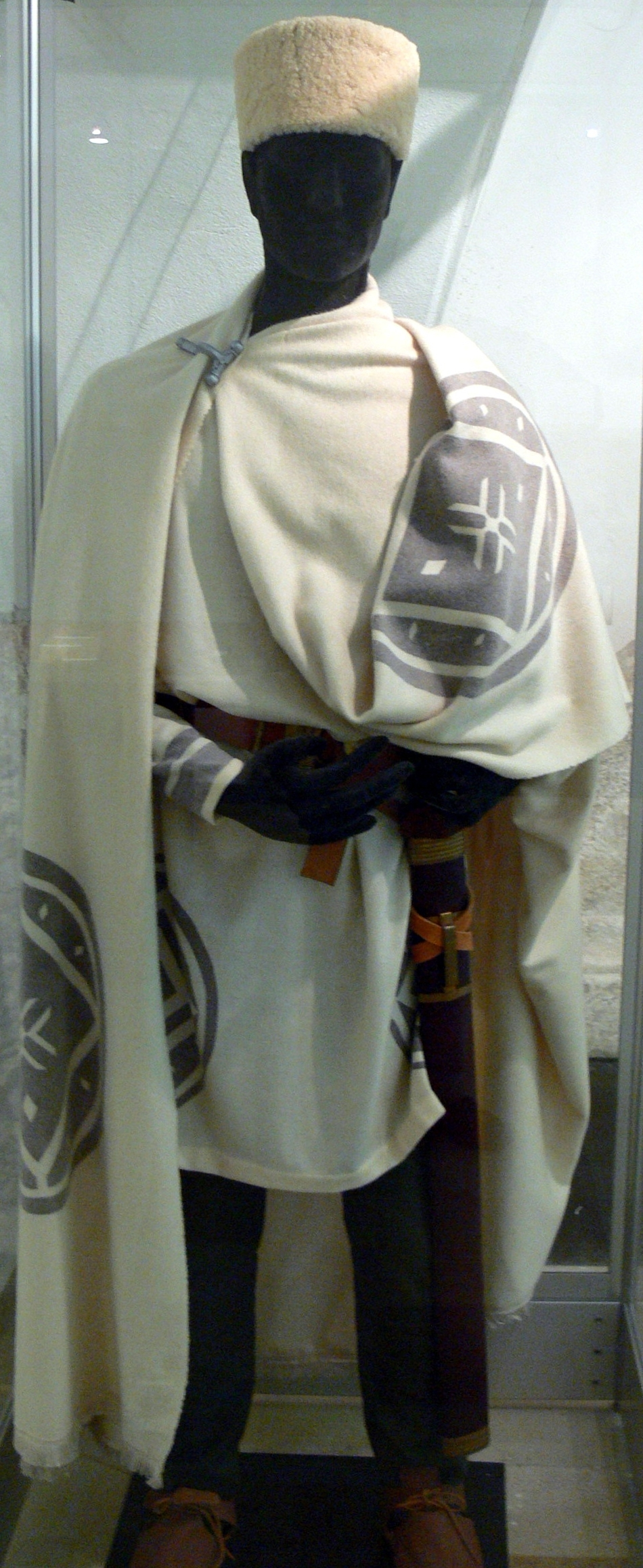 Enns ( Upper Austria ). Museum Lauriacum: Model of an ancient Roman military official ( 5th century AD ).